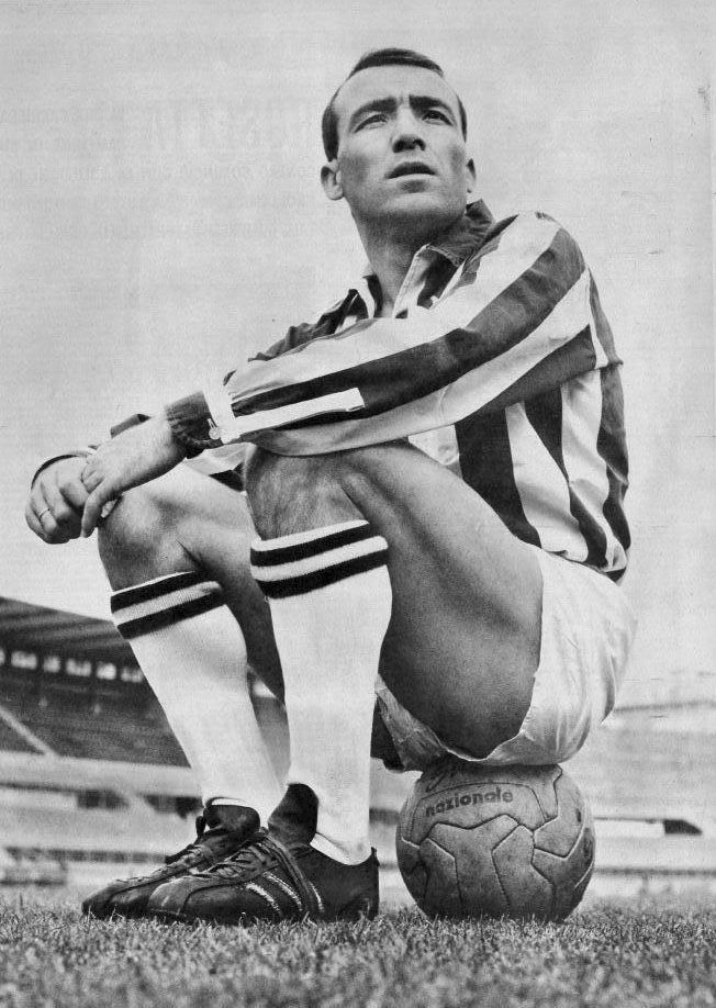 Spanish footballer Luis del Sol Cascajares with Juventus F.C. in the 1962–63 season, posing inside the Communal Stadium in Turin, Italy.